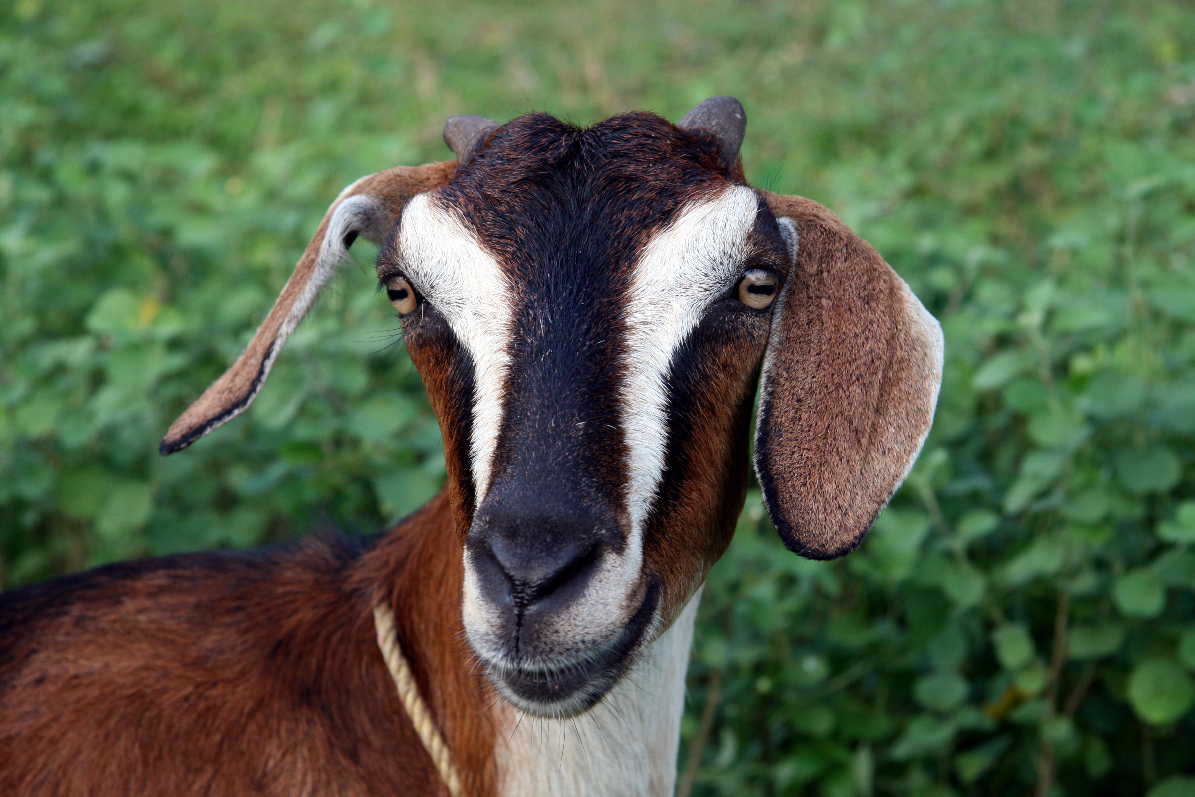 A goat